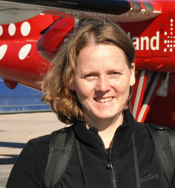 Photograph of Silke Wenzel 2015